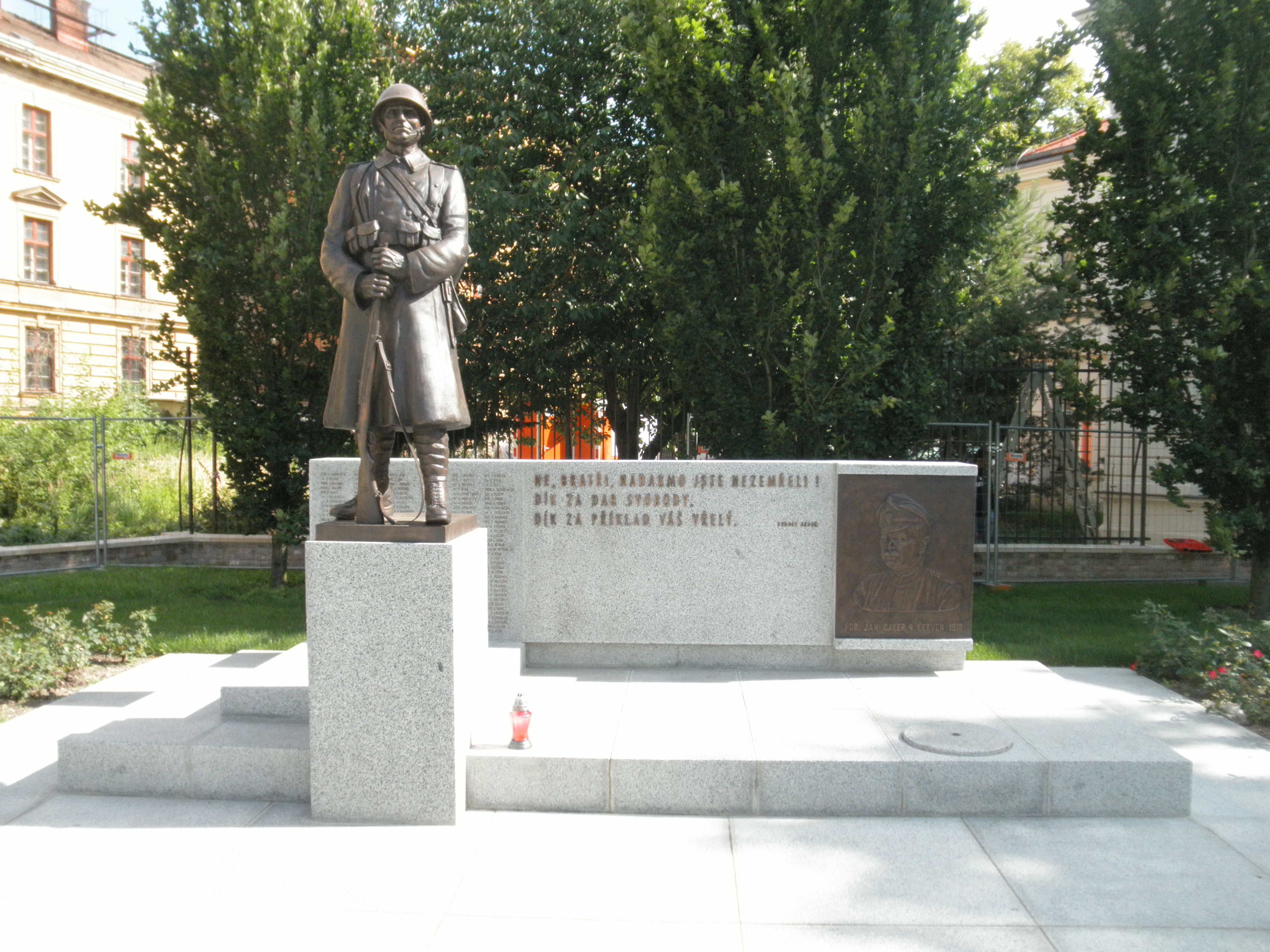 Memorial to Jan Gayer in Hradec Králové.